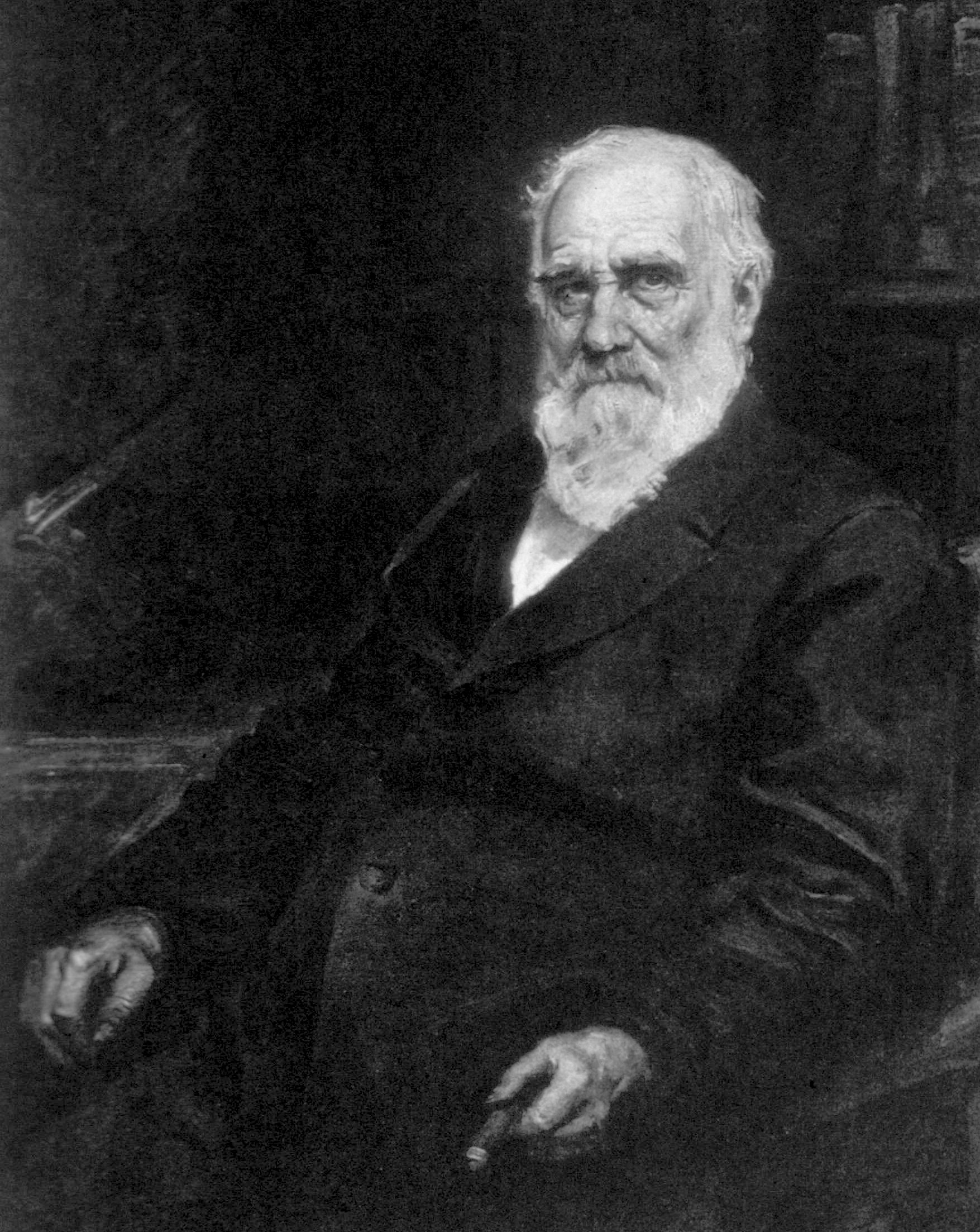 Max von Pettenkofer